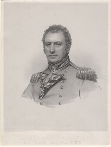 Pre-1850 lithograph print.